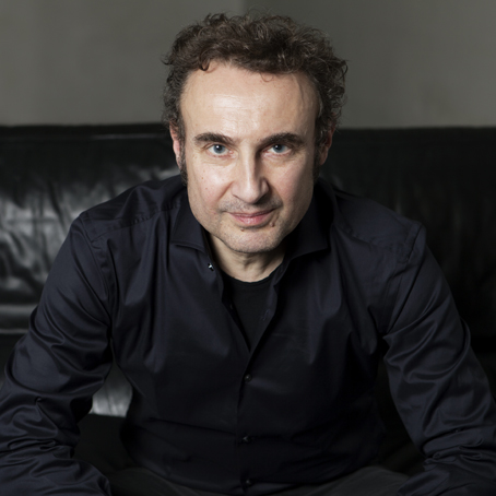 Thierry Hesse, writer